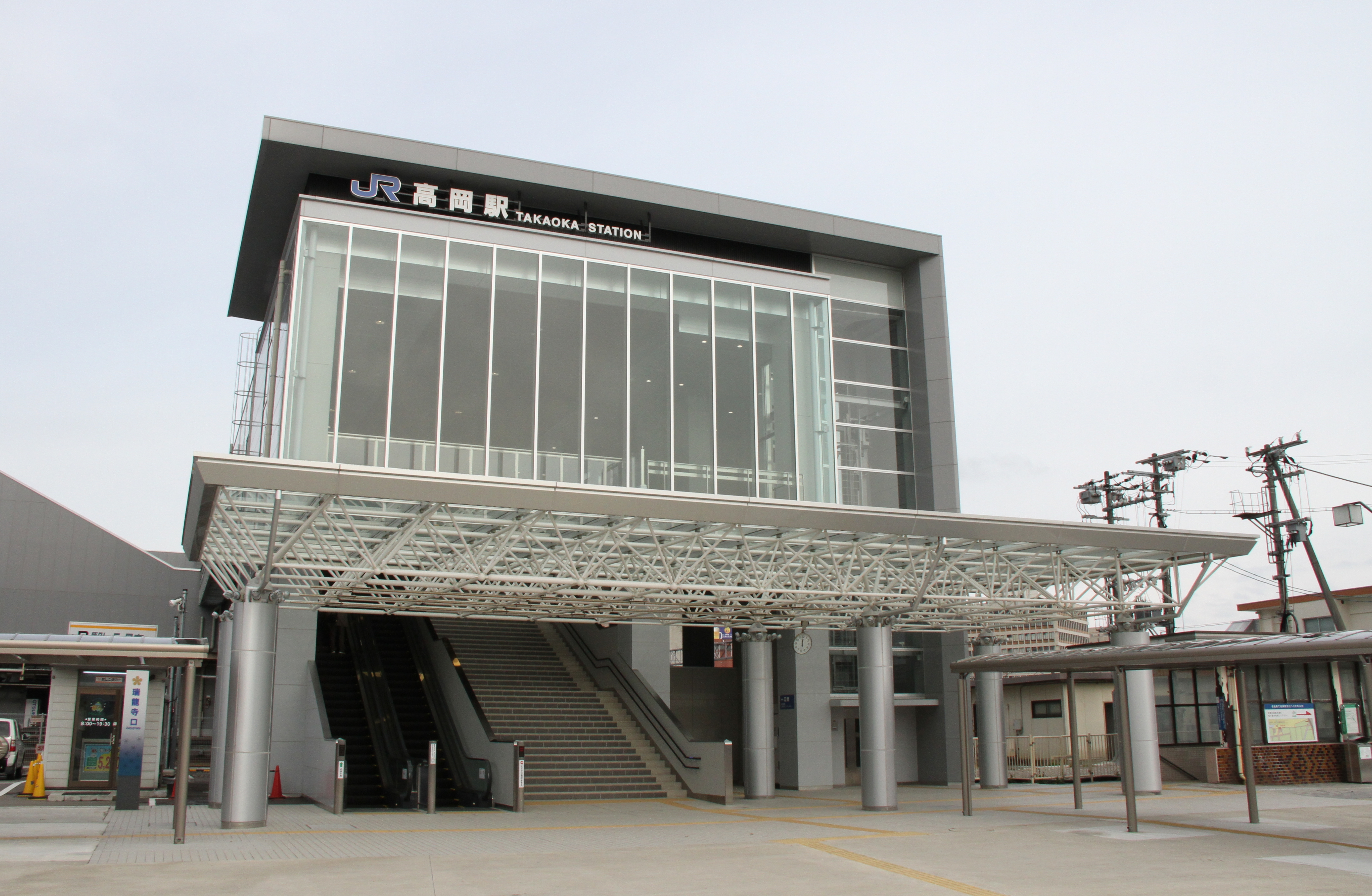 Takaoka Station "Zuiryuji" (South) exit